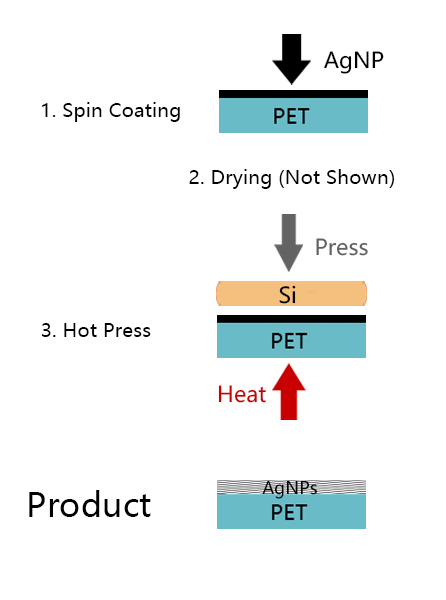 Process of the AgNP into the polymer substrates